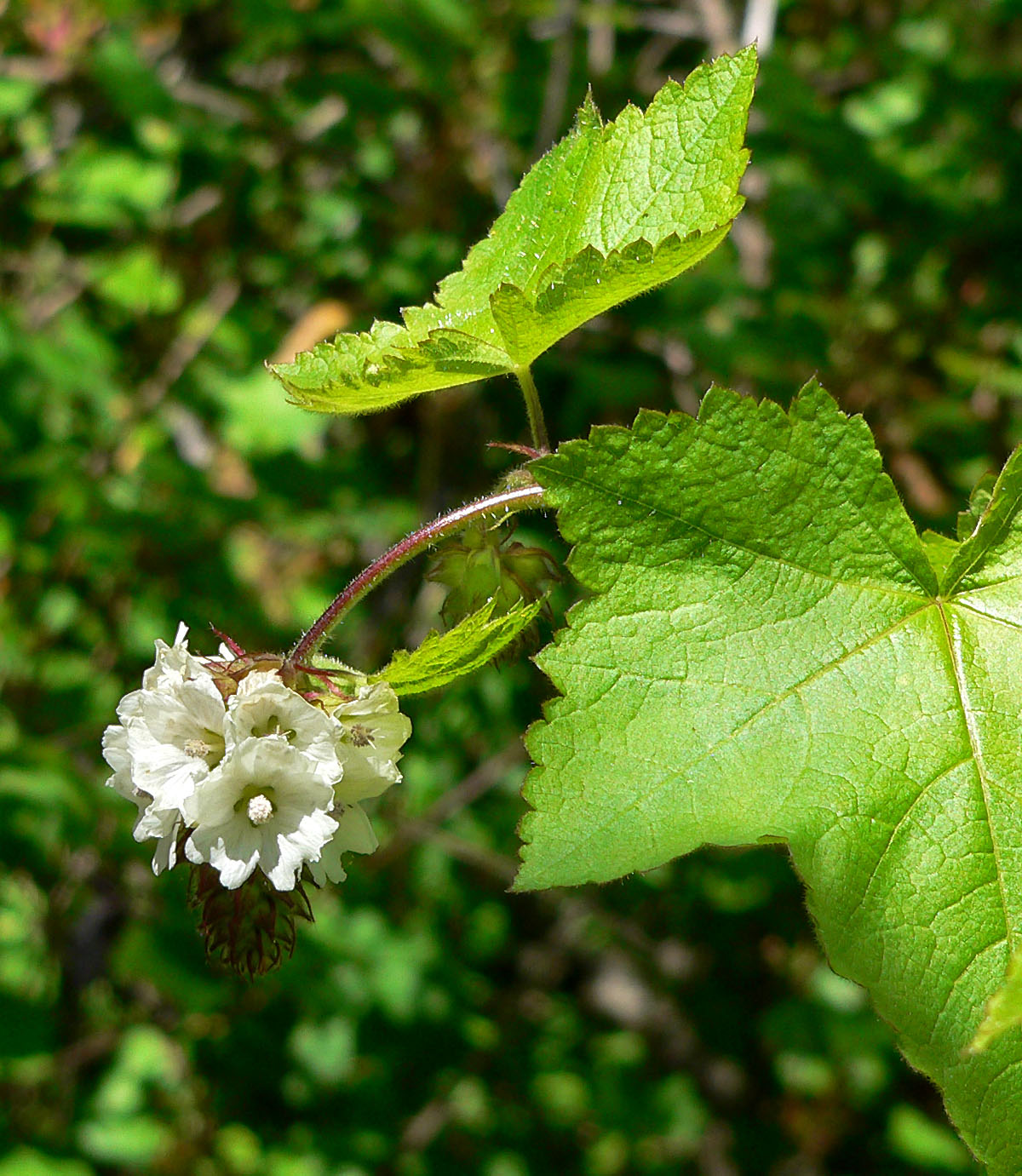 Sidalcea malachroides at the University of California Botanical Garden, Berkeley, California